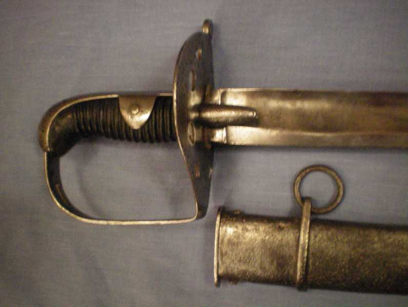 Digital image of Pattern 1796 Heavy Cavalry Trooper Dress Sword